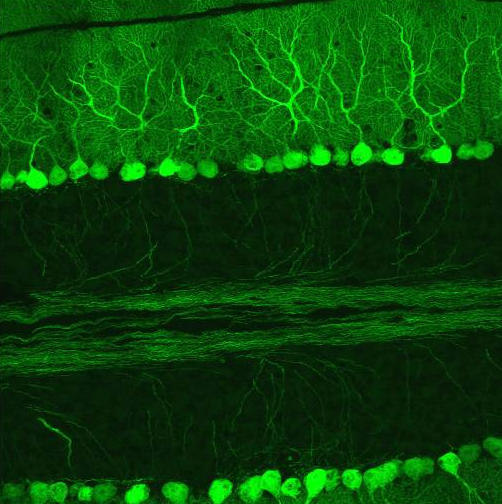 Confocal micrograph of cerebellum from transgenic mouse expressing EGFP driven by an L7, Purkinje cell-specific promoter.